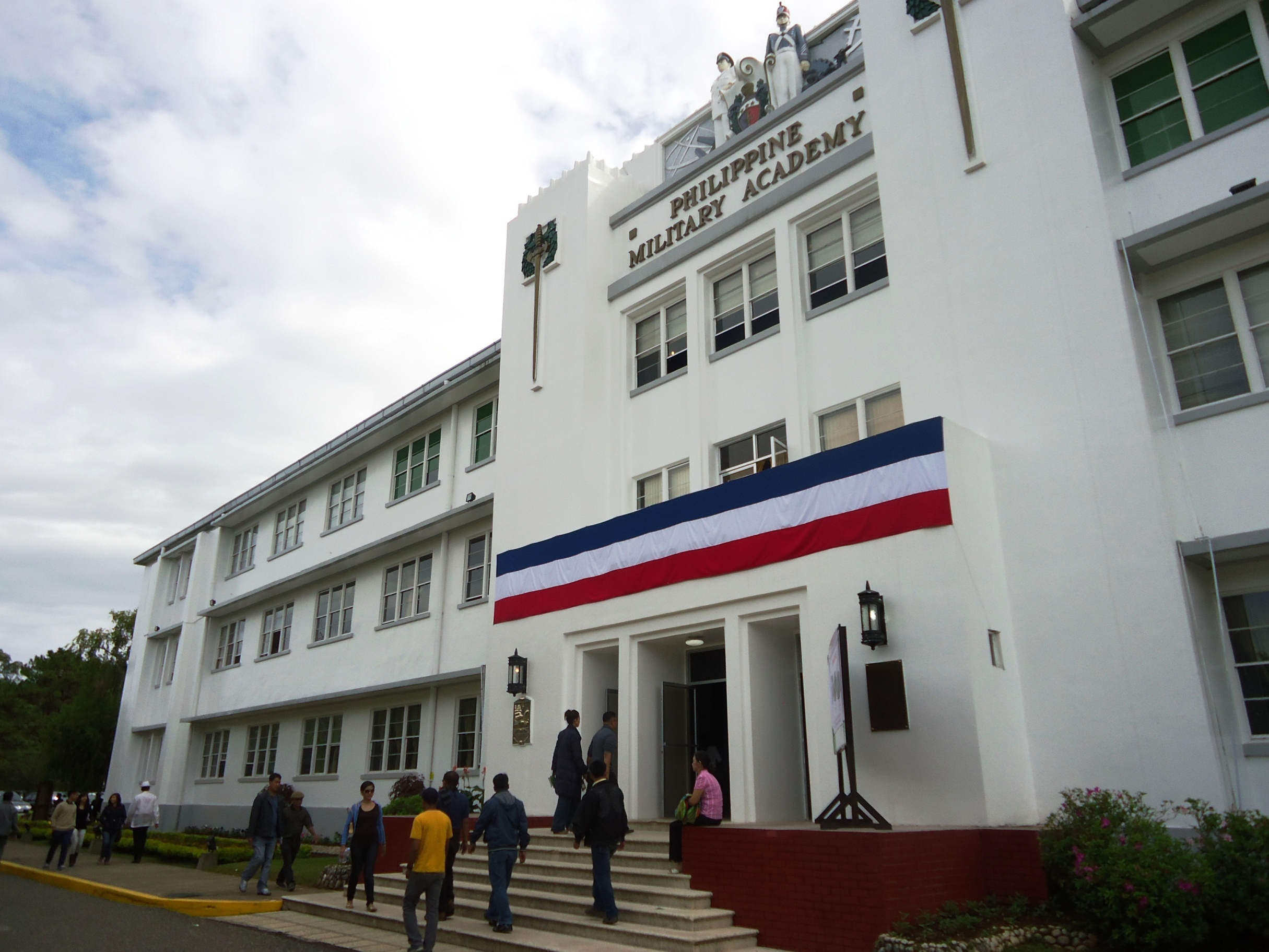 the facade of the philippine military academy in baguio city